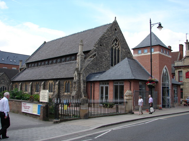 United Reformed Church, Southgate Work nears completion on the front extension, bringing the church closer to the community.